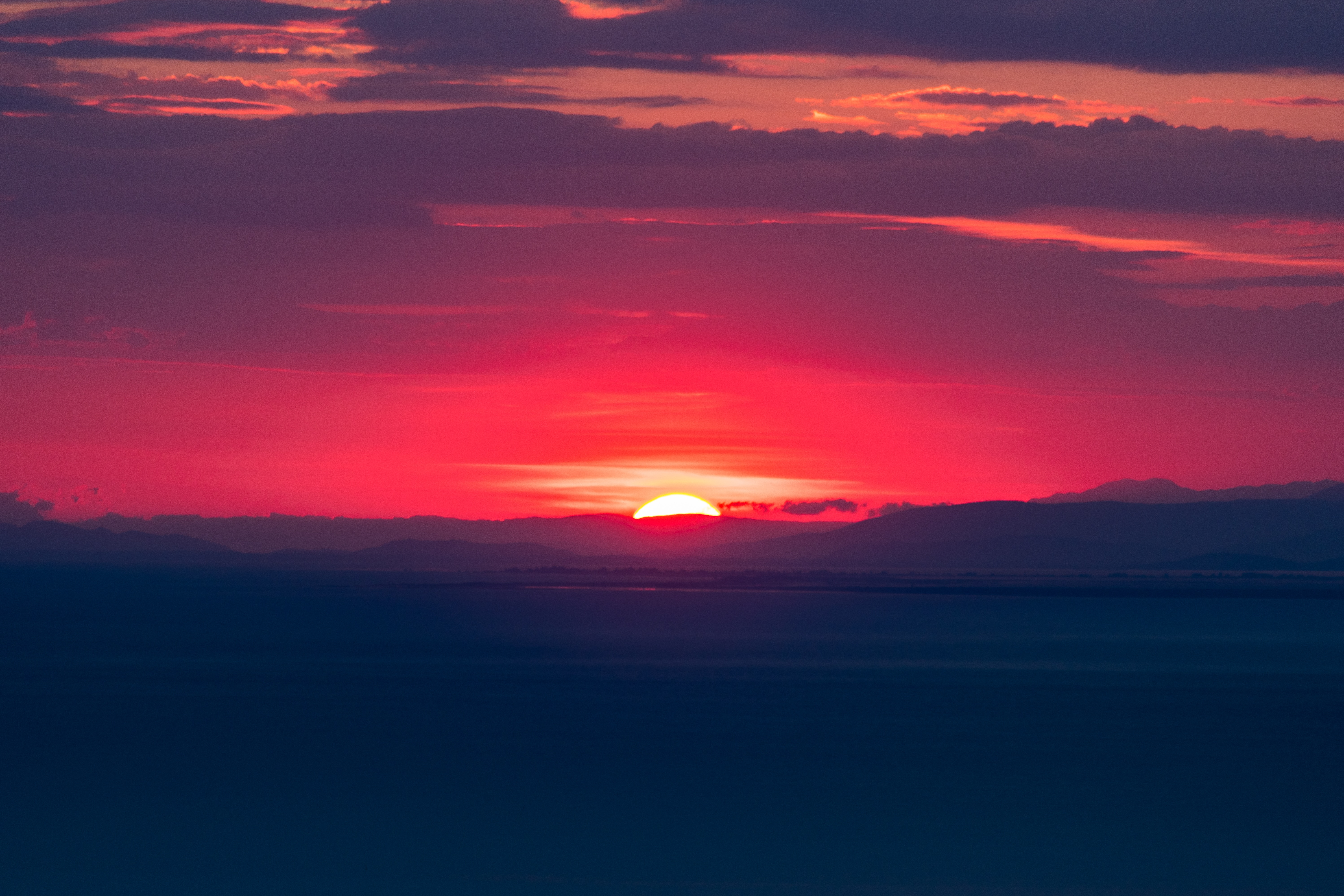 Sunset in Patras, Greece